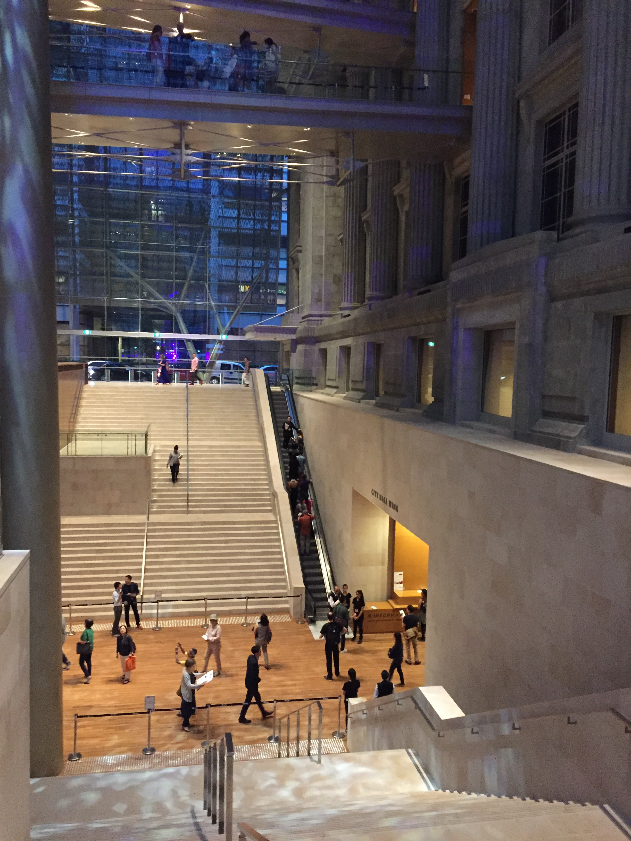 The staircase leading to the lower level of the Padang Atrium of the National Gallery Singapore.